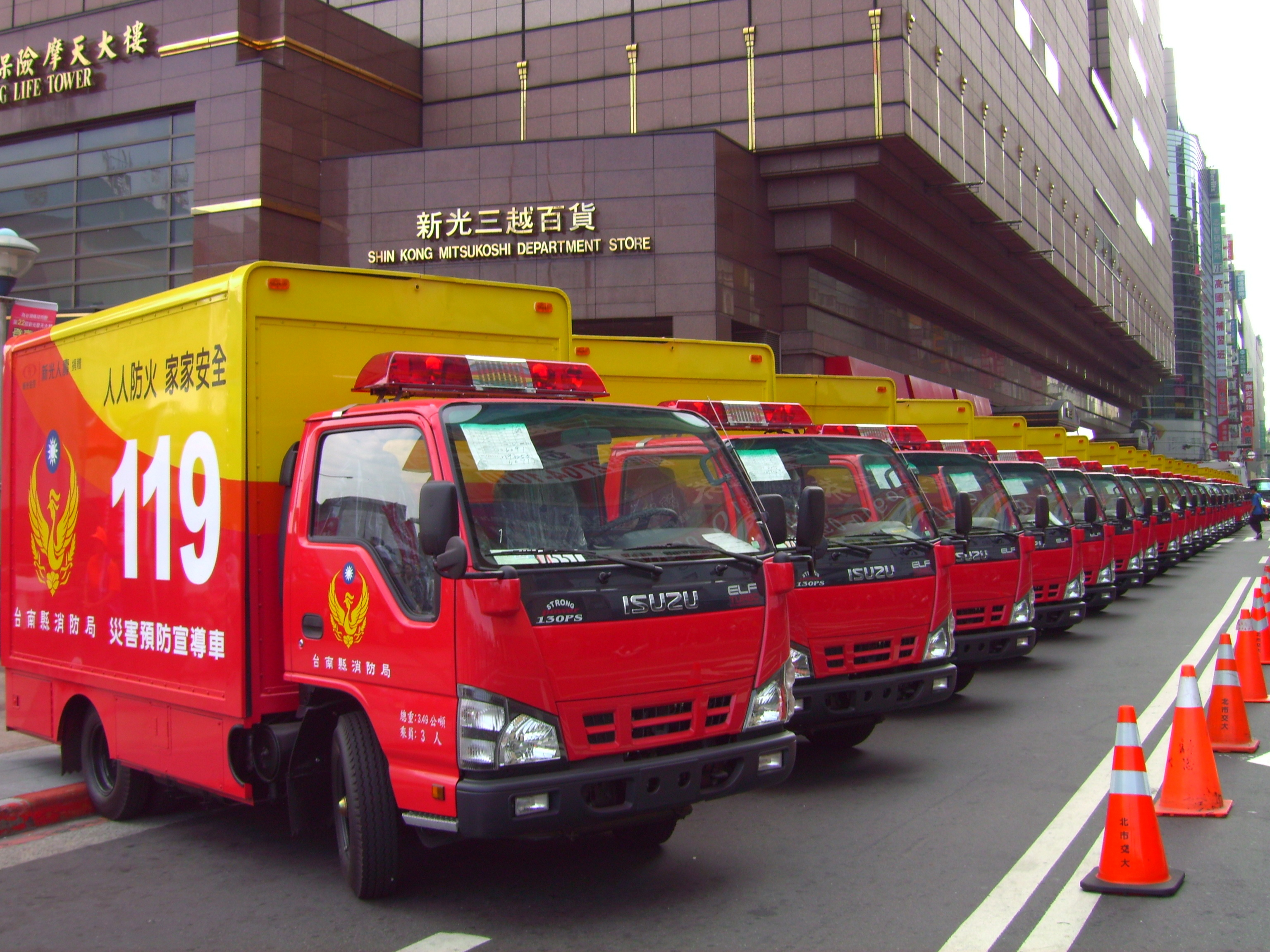 The Firefighting Promotion Cars lined up at Kuan-Chien Road in the Taipei City in the 22nd SKL Run Up.